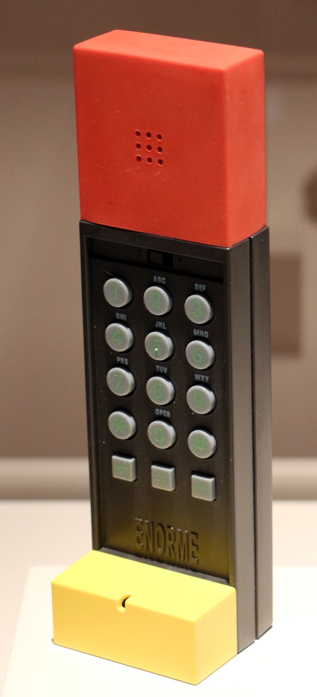 Metalware in the Milwaukee Art Museum